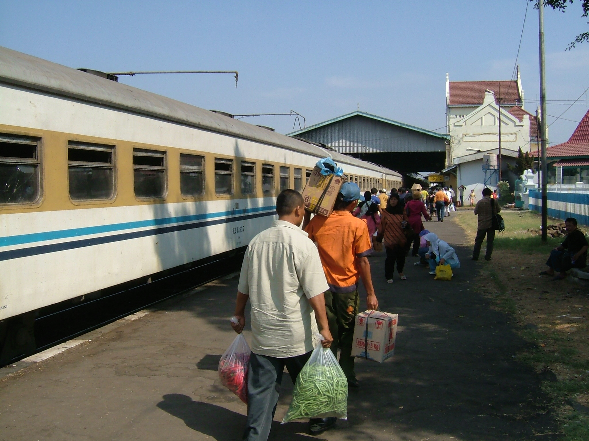 Passenger of Cirebon Express train at Cirebon Station, West Java, Indonesia. チルボン駅で下車したチルボン・エクスプレスの乗客。